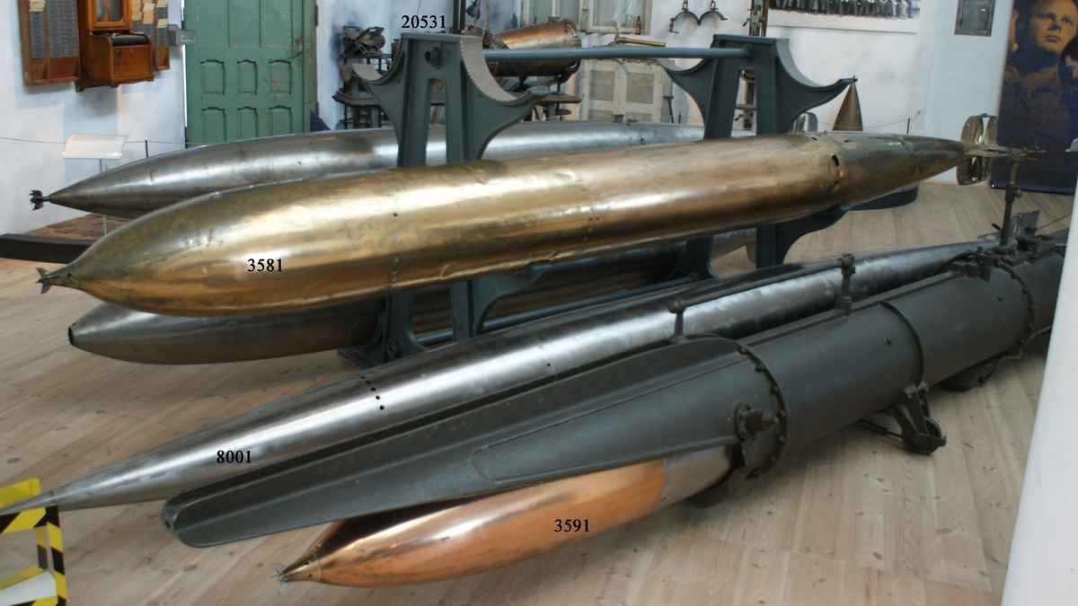 A collection of early torpedo models of the Swedish Navy. The torpedo labelled "8001" is the first model, a 35 cm Whitehead from 1876 (M/76). The "3581" is a 38 cm Schwartzkopff (M/89) with its special "phosphorbronze" casing (to avoid corrosion). This photo is copied from digitaltmuseum.se, item "MM 03591" and it is clearly labelled "CC BY-SA" to Marinmuseum.